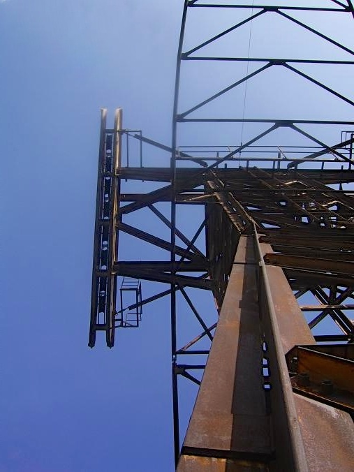 pylon of unfinished cablecar to Sighignola peak, Campione d'Italia